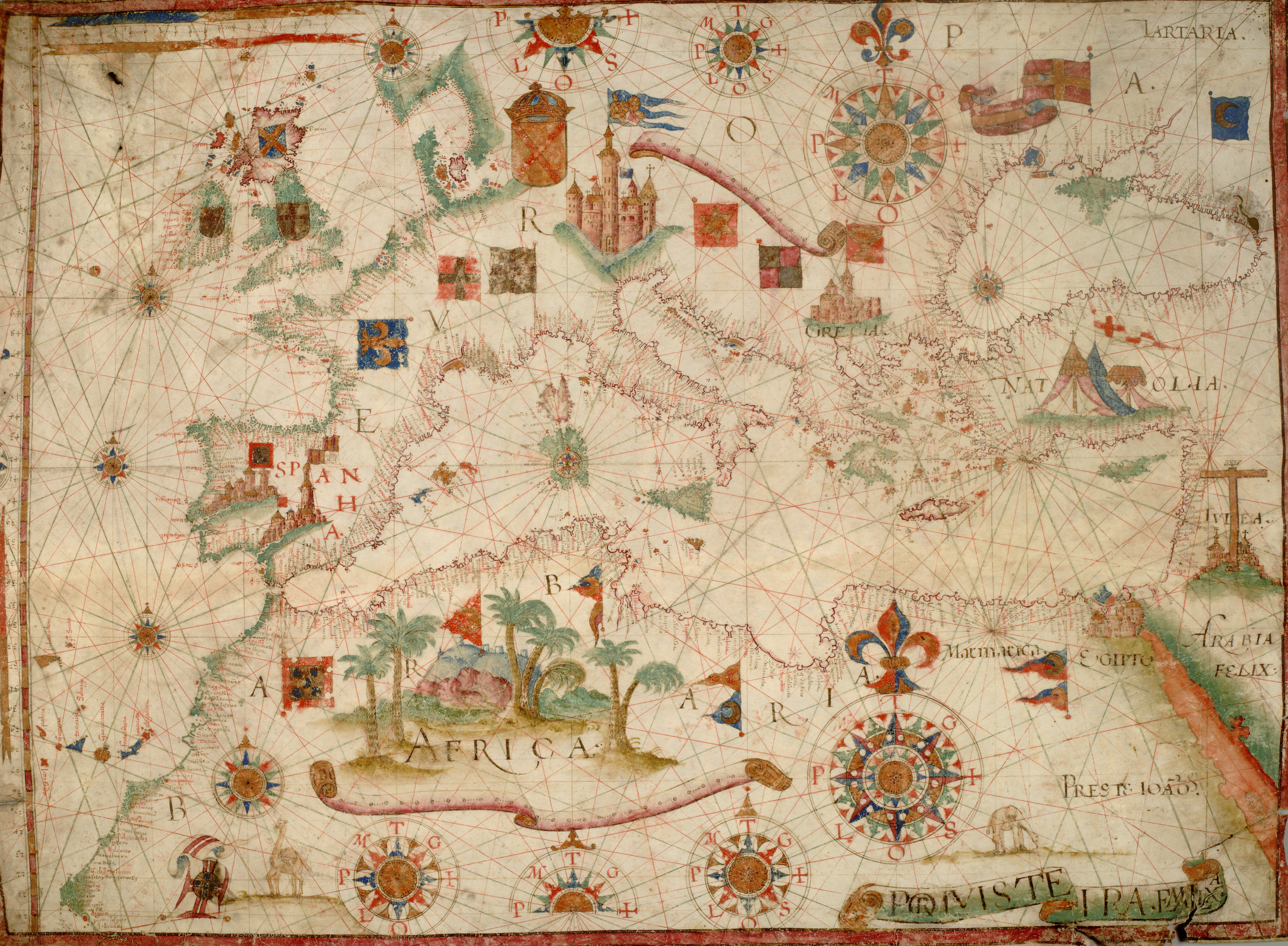 Nautical chart of Mediterranean area, including Europe with British Isles and part of Scandinavia. Call Number: HM 1549 LUÍS TEIXEIRA, PORTOLAN CHART. Lisbon, ca. 1600 Inscribed on a scroll “Por Luis Te[ixe]ira em Lix[bo]a.” Sold in 1867 by Henry Stevens (1791-1867) to Henry Huth (1815-78), The Huth Library (1880), pt. 4, 1171. Sale of Alfred Henry Huth (1850-1910), Sotheby’s, 11 July 1917, pt. VI, n. 5914 to G. D. Smith for Henry E. Huntington. The map shows shields or heraldic banners of a number of realms, including: Scotland (azure a saltire gules) England (argent a cross gules) Ireland, not very legible (perhaps a repetition of the English shield?) Portugal (Argent? five hurts within a bordure gules -- also on Morocco) Spain (quarterly, 1st and 3rd a castle, 2nd and 4th paly of Or and gules) France (azure a fleur-de-lys Or, rotated with respect to the others) On Switzerland / Germany / Northern Italy, gules a cross argent and argent a cross gules Venice shown very large, flying blue St. Mark's lion banner On the western Balkans, gules a mullet of 6 pierced or and quarterly of sable(?) and gules Greece shown flying gules, a chalice or On Anatolia, crusader's St. George cross banner flying from tent. In northern central Europe, large crowned shield with Or a saltire gules (Holy Roman Empire?) On north coast of Black Sea, long banner gules a cross Or Muslim states in north Africa shown mainly with white or yellow vertical crescents on triangular banners of red and blue (or horizontally divided between red and blue). Tartaria shown as azure, a decrescent argent. Next to the southernmost mapped area of the western coast of Africa is the Portuguese Order of Christ cross banner